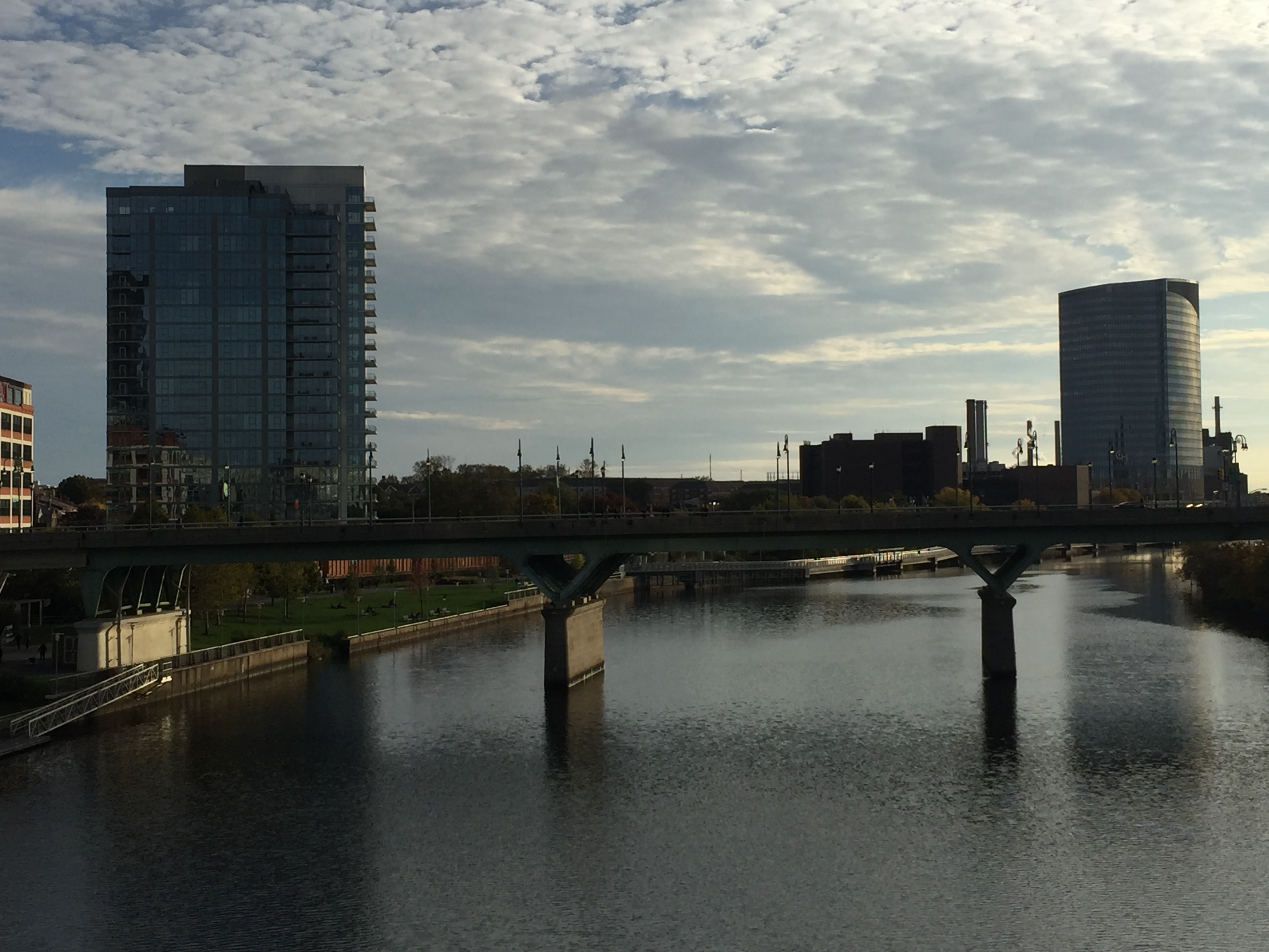 Walnut Street bridge